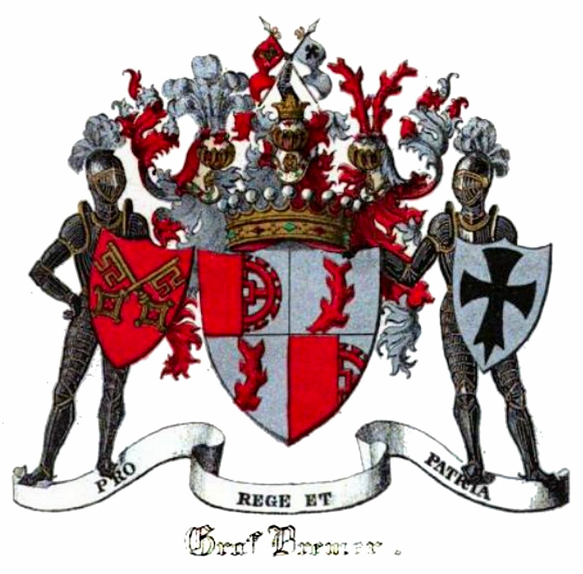 Graf von Bremer